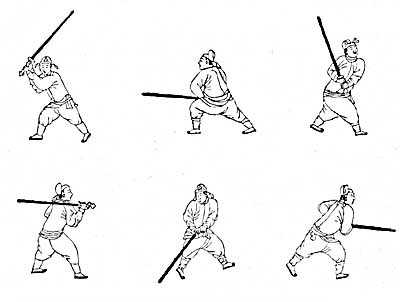 Drilling with a two handed sword. An illustration from the Wubei Zhi (Treatise on Armament Technology).